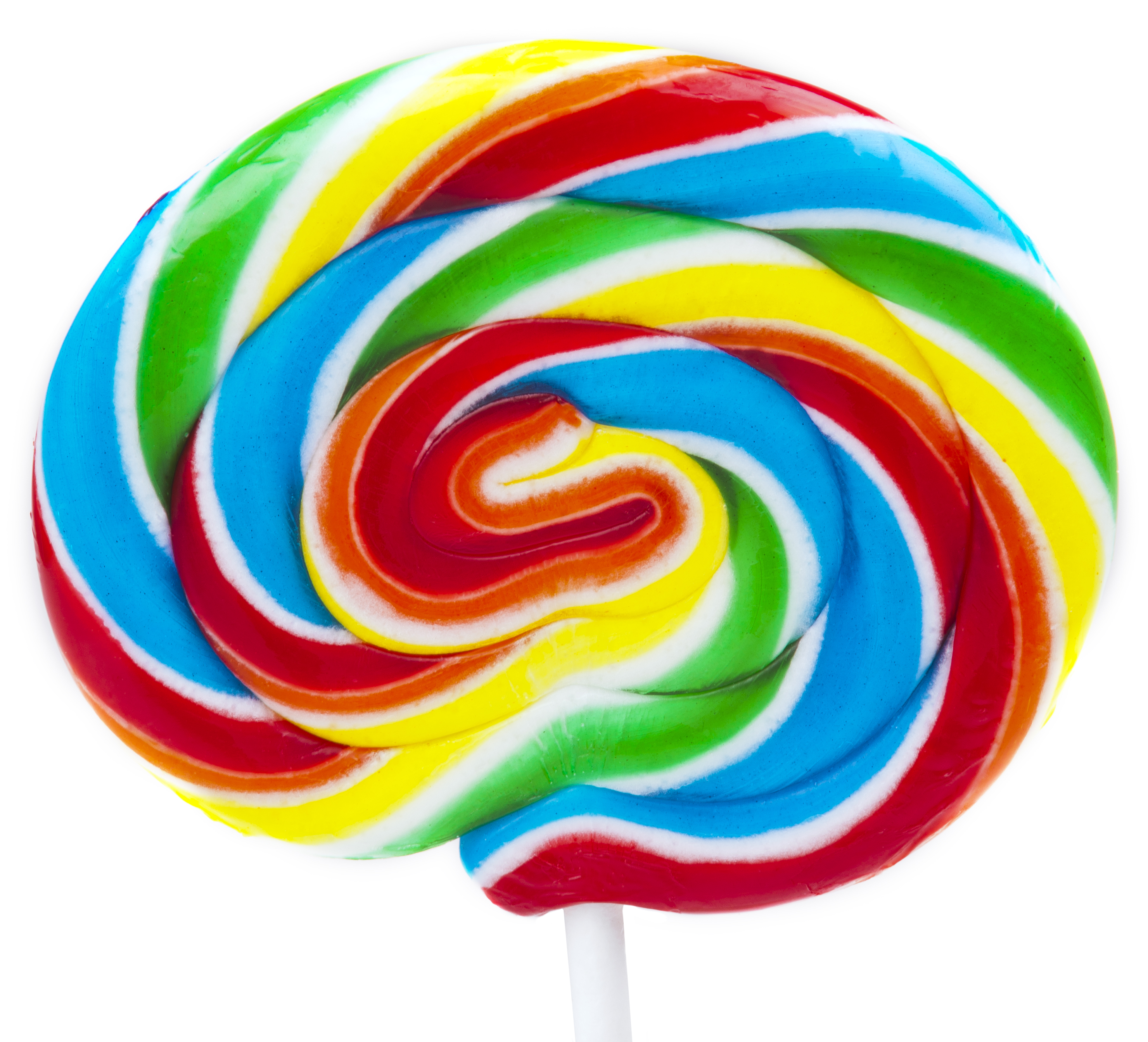 A Whirly Pop lollipop.